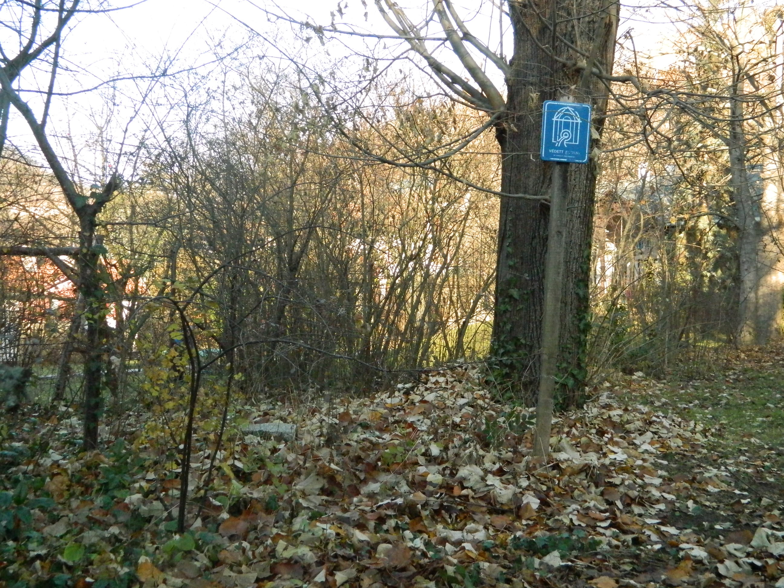 The Csermely Well in Zugliget, Budapest District XII Unknown